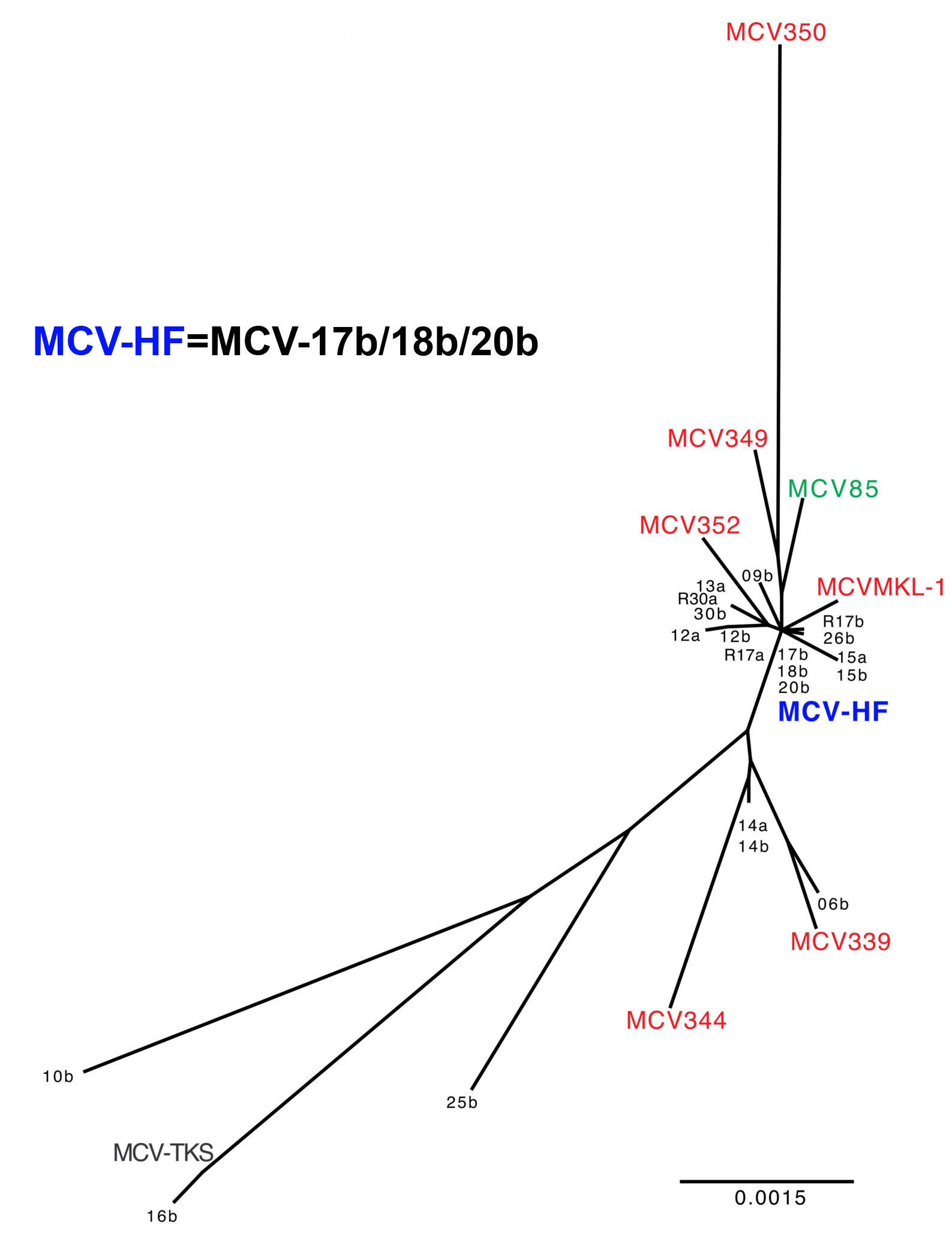 Created by Dr. Huichen Feng.